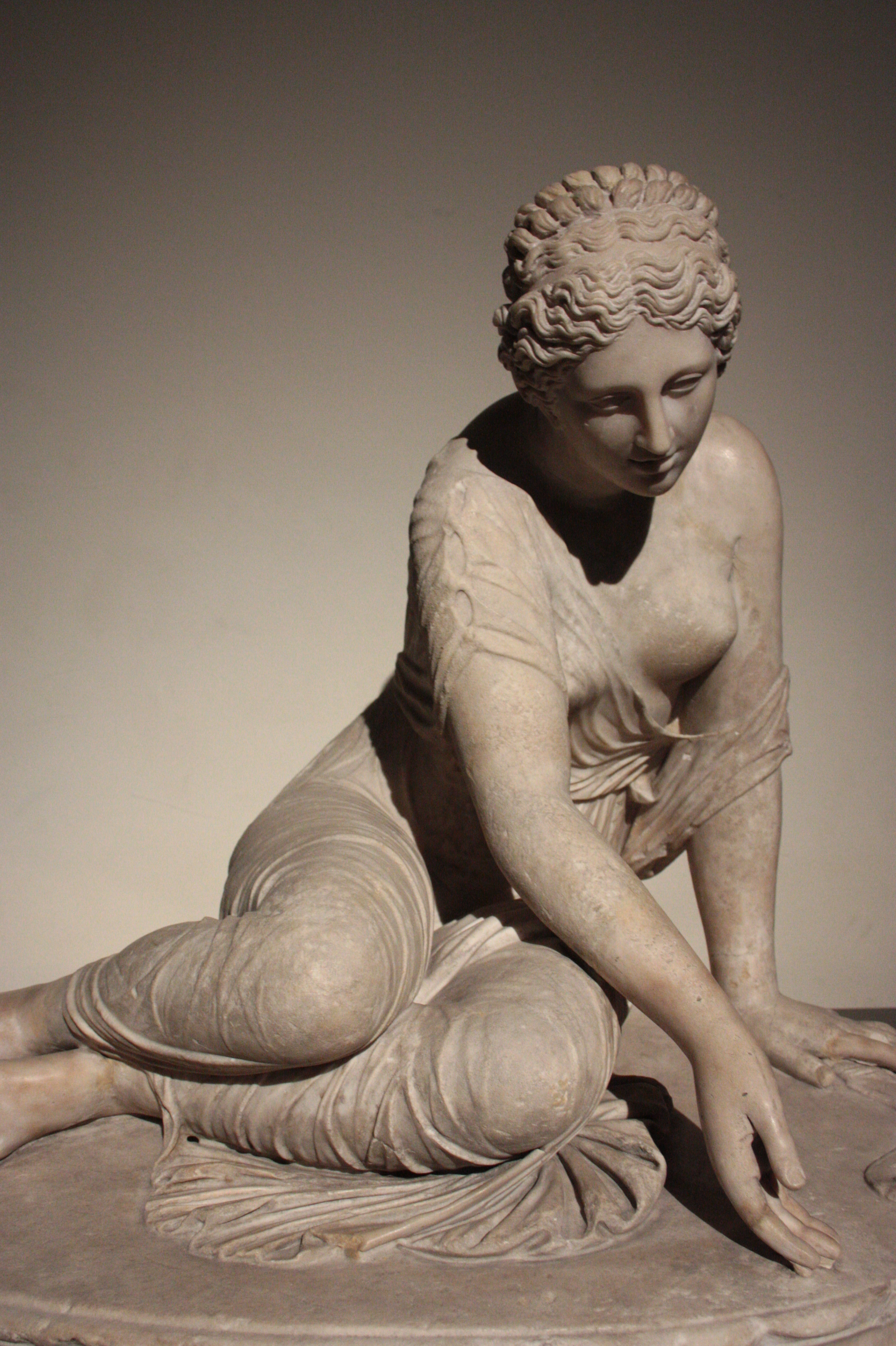 The Knuckle Bone Player (Roman c.150AD) British Museum from the collection of Charles Townley